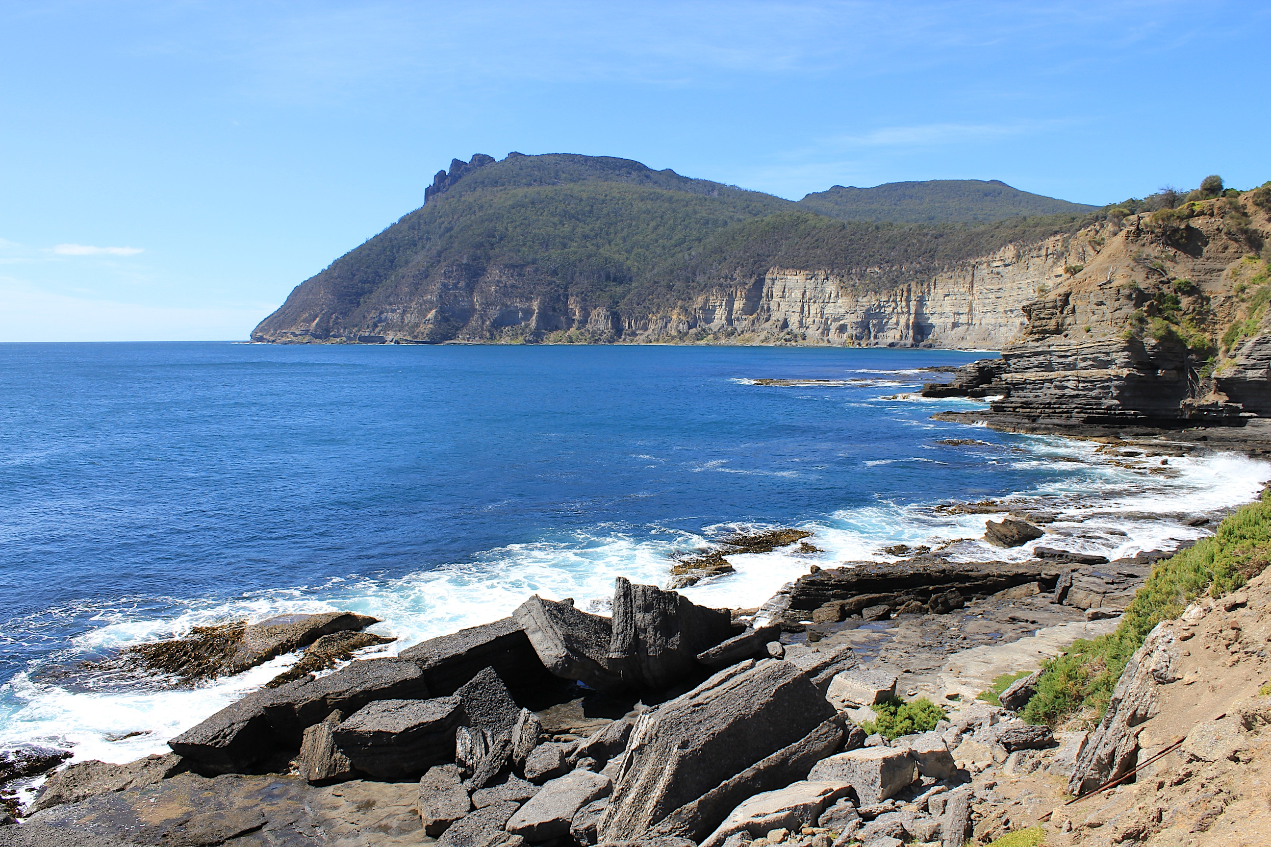 Fossil Bay, Maria Island (Tasmania, Australia). Looking towards Bishop & Clerk mountain.